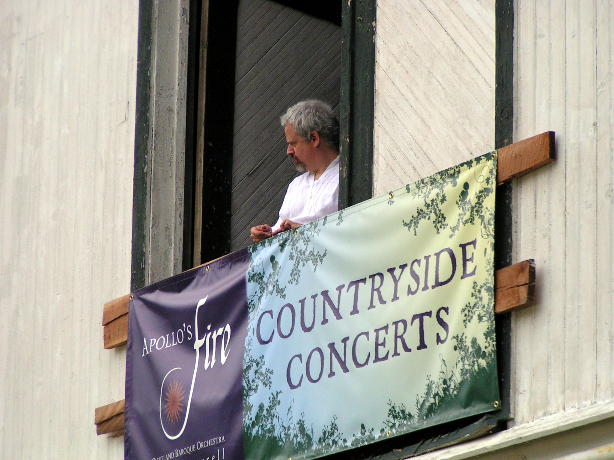 A performer looks out from the loft